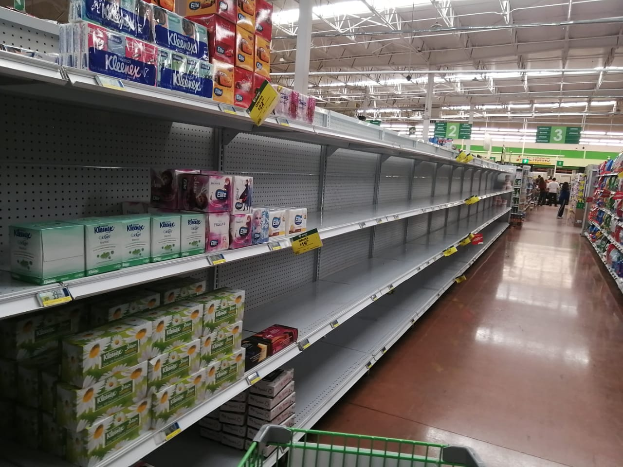 Panic buying at a supermarket in Ensenada, BC Mexico due to the COVID-19 pandemic.